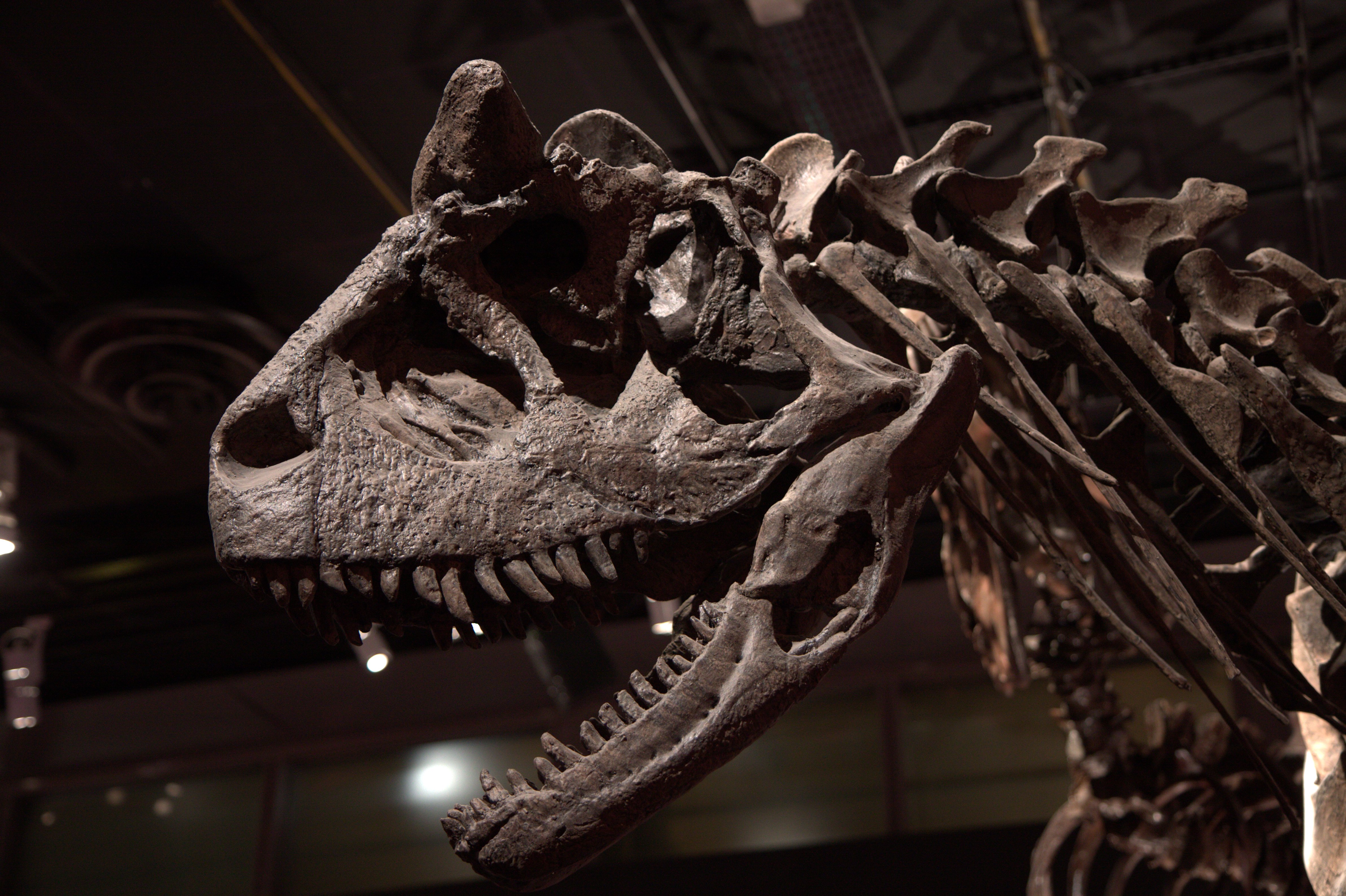 Un crane de Carnotaurus. The making of this document was supported by Wikimédia France. (Submit your project!)